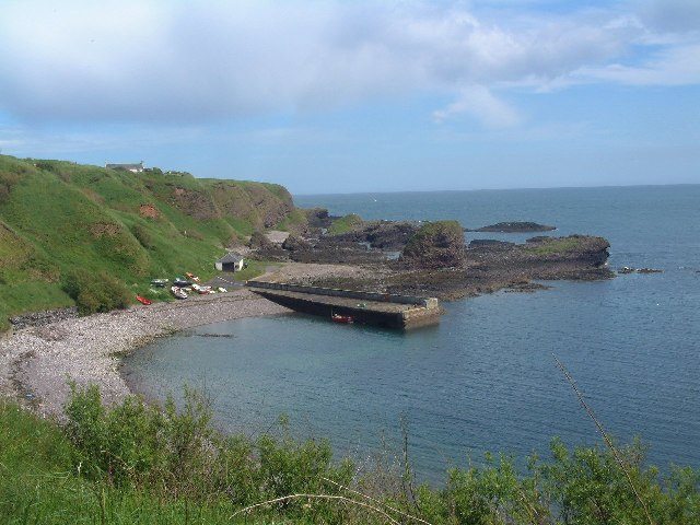 Catterline Harbour, Catterline, Aberdeenshire, in the C19th a commercial fishing centre